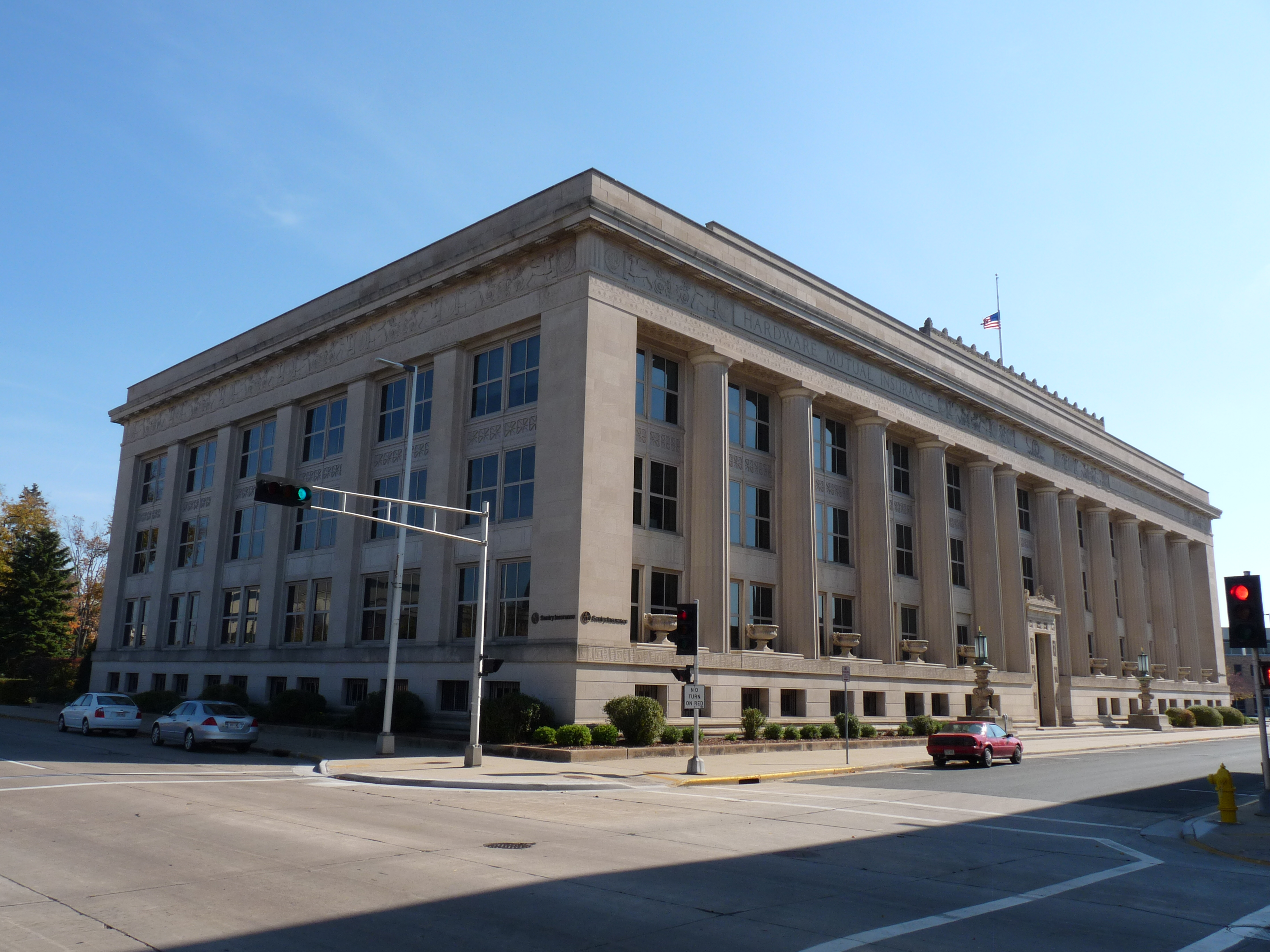 The Hardware Mutual Insurance Company building in Stevens Point, Wisconsin, built in 1922, now houses offices of Sentry Insurance. The building is on the National Register of Historic Places.